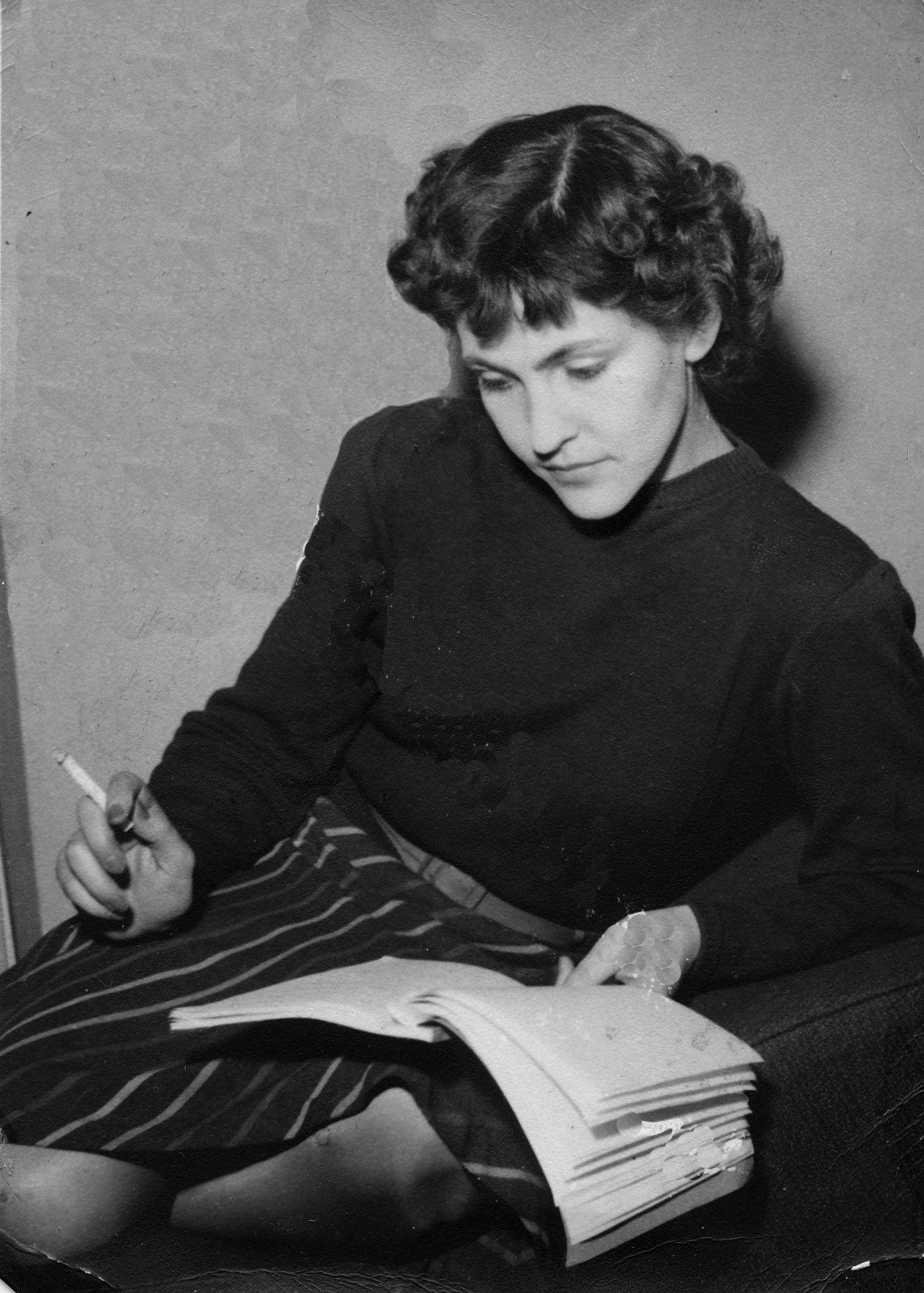 Kerstin Rabe